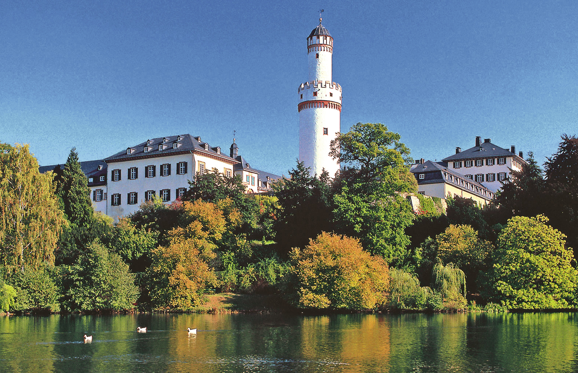 Bad Homburg Schloss and 'White Tower', viewed from Park side